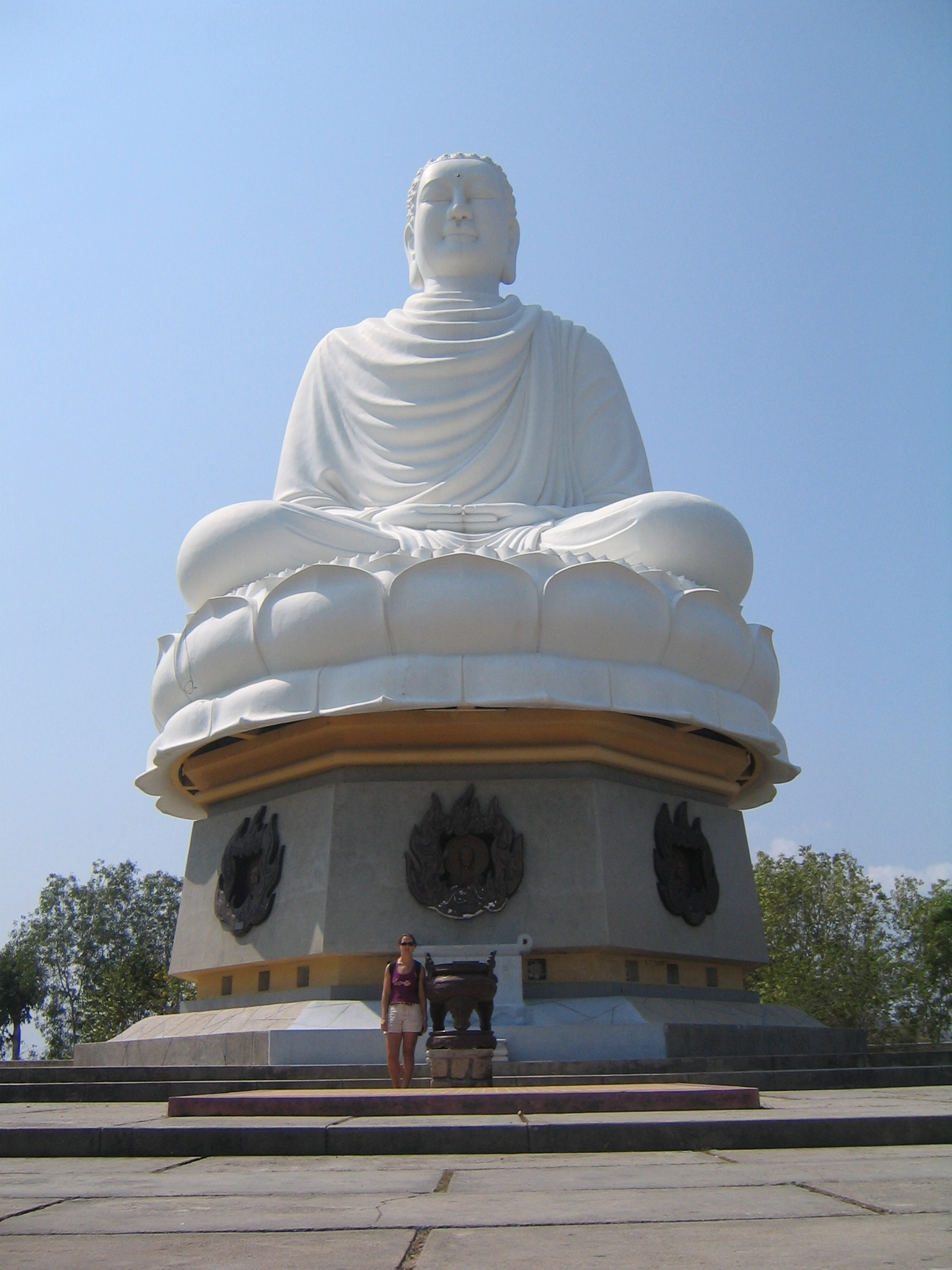 White Buddha in Nha Trang, Vietnam